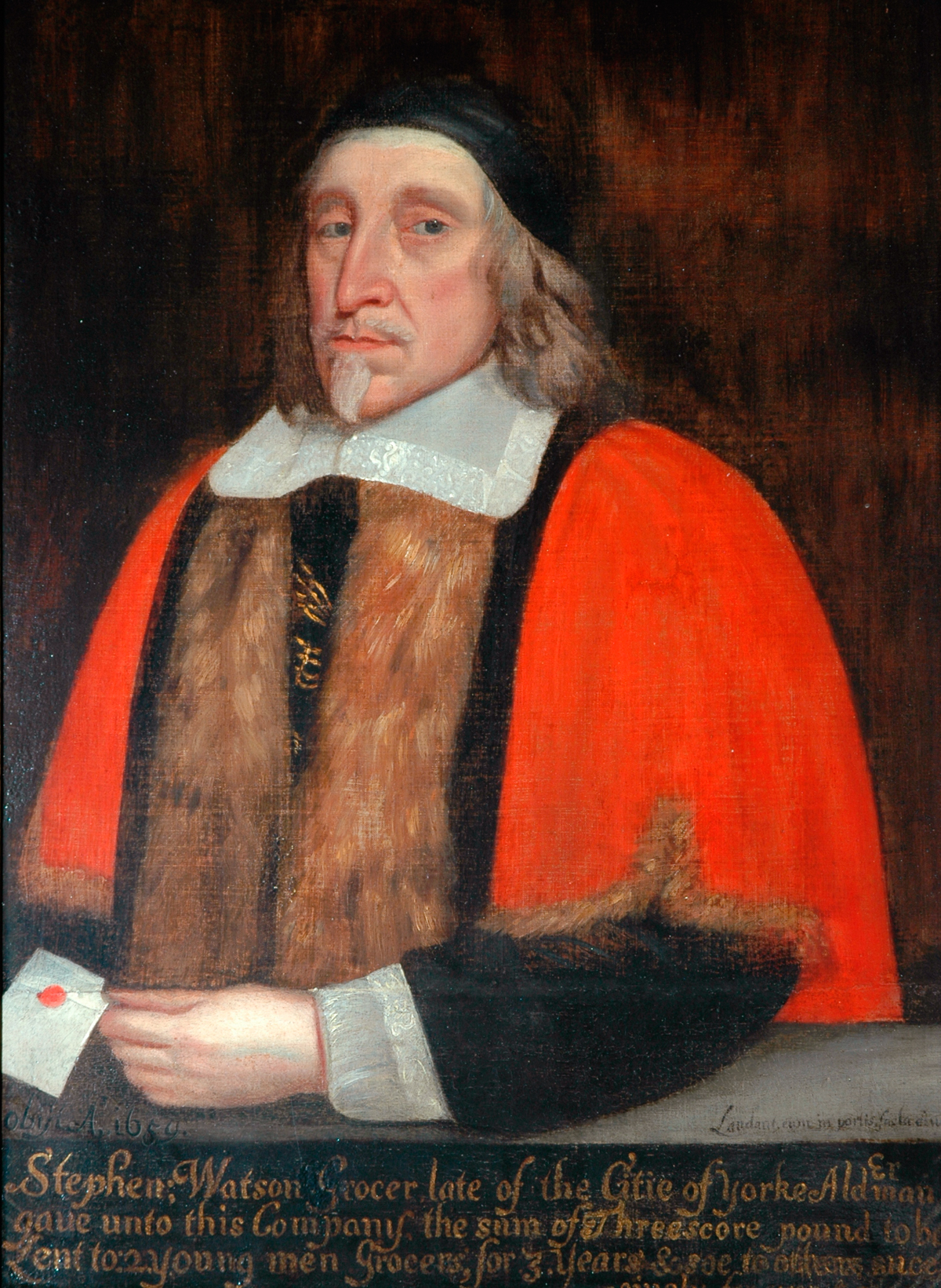 Portrait of Stephen Watson (d.1659), Grocer and Alderman, Warden (1629–1631)